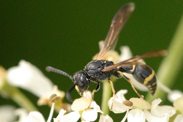 Symmorphus gracilis from Commanster, Belgian High Ardennes .